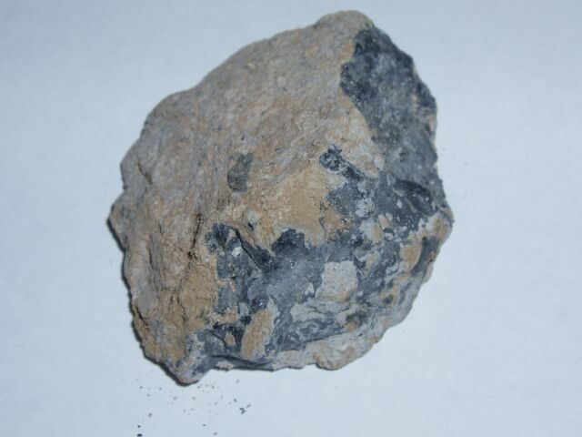 Calcium Carbide after exposure to air.